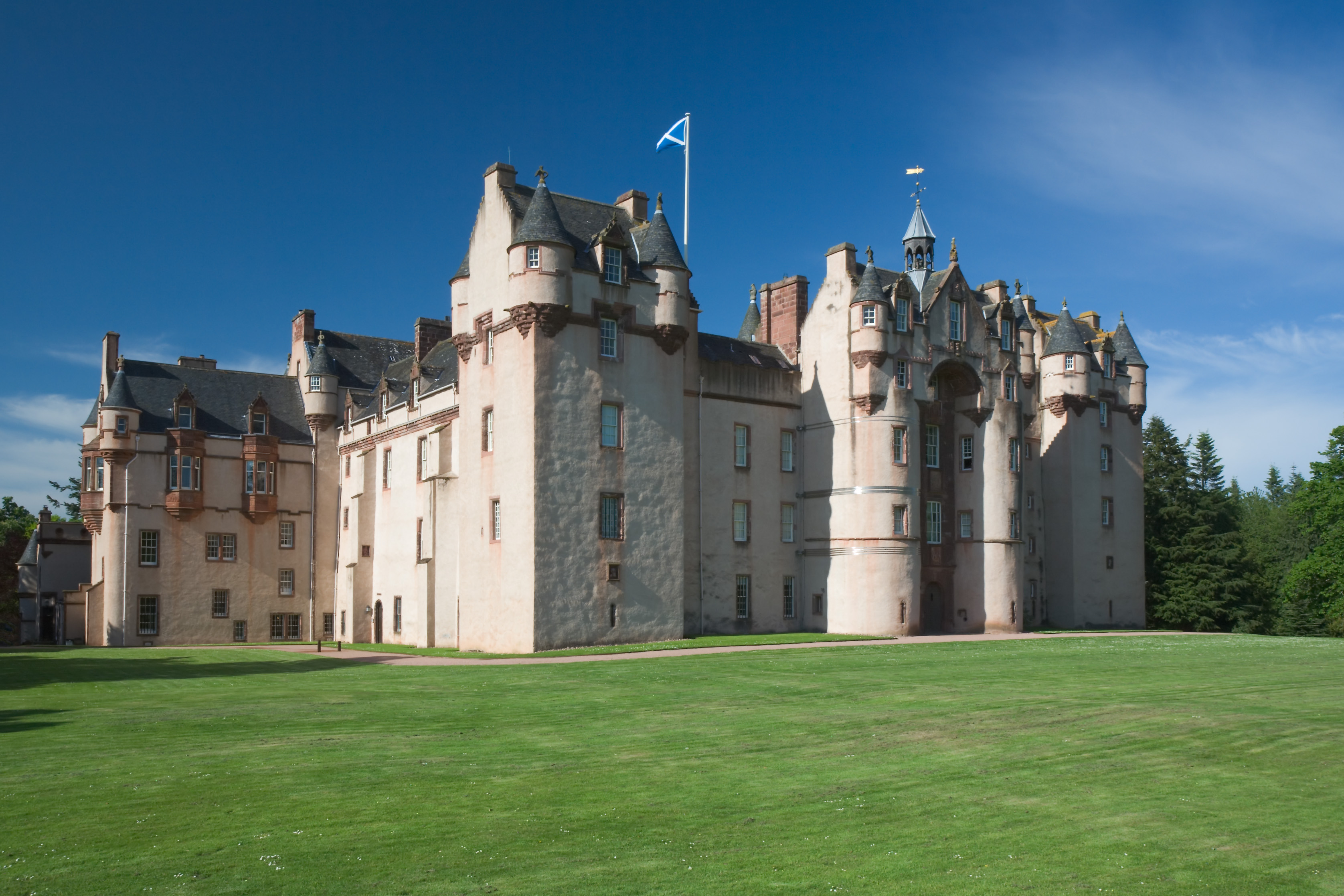 Fyvie Castle in the late afternoon, Aberdeenshire, Scotland